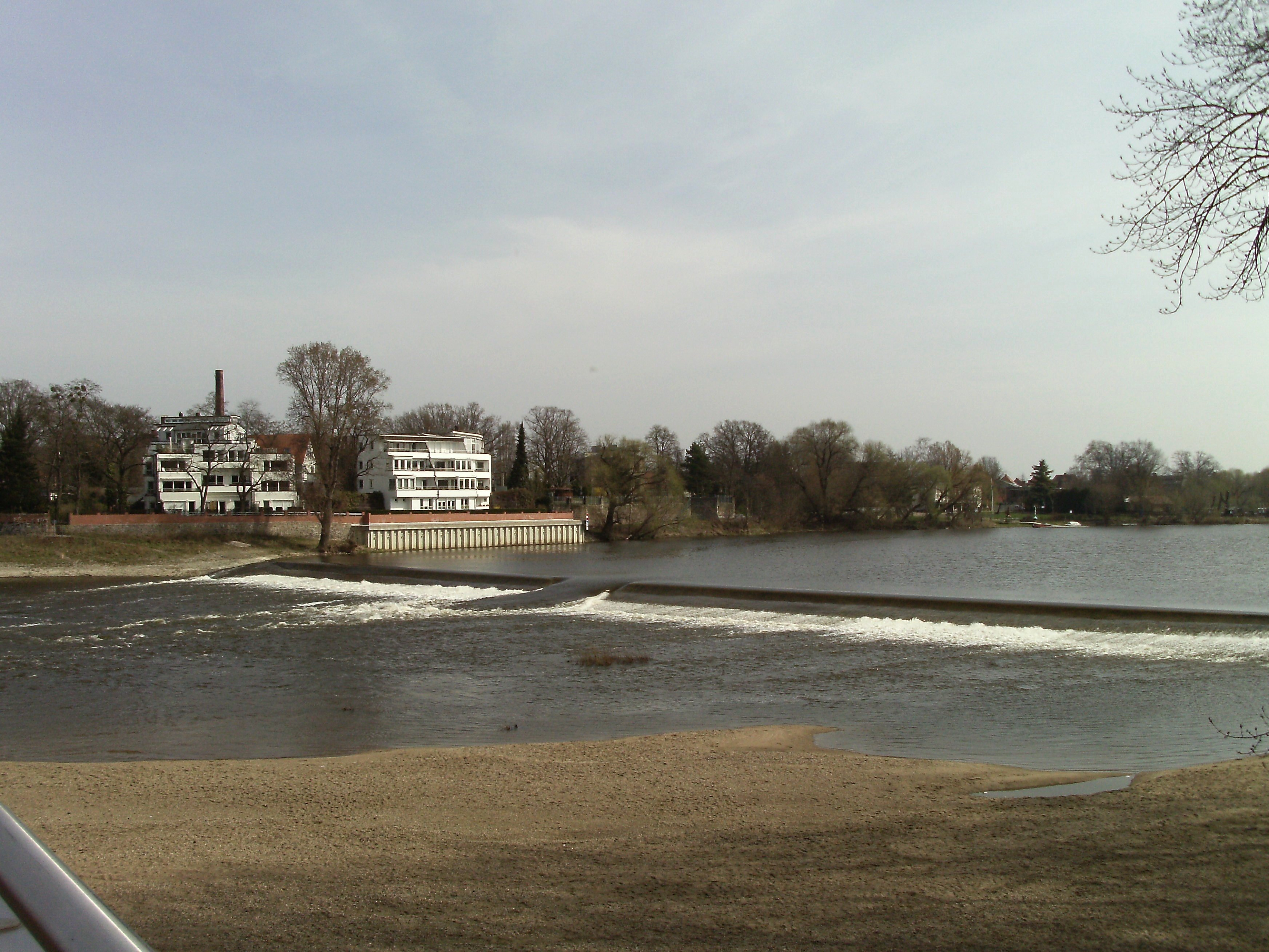 Waterfall of the Old Elbe in Magdeburg